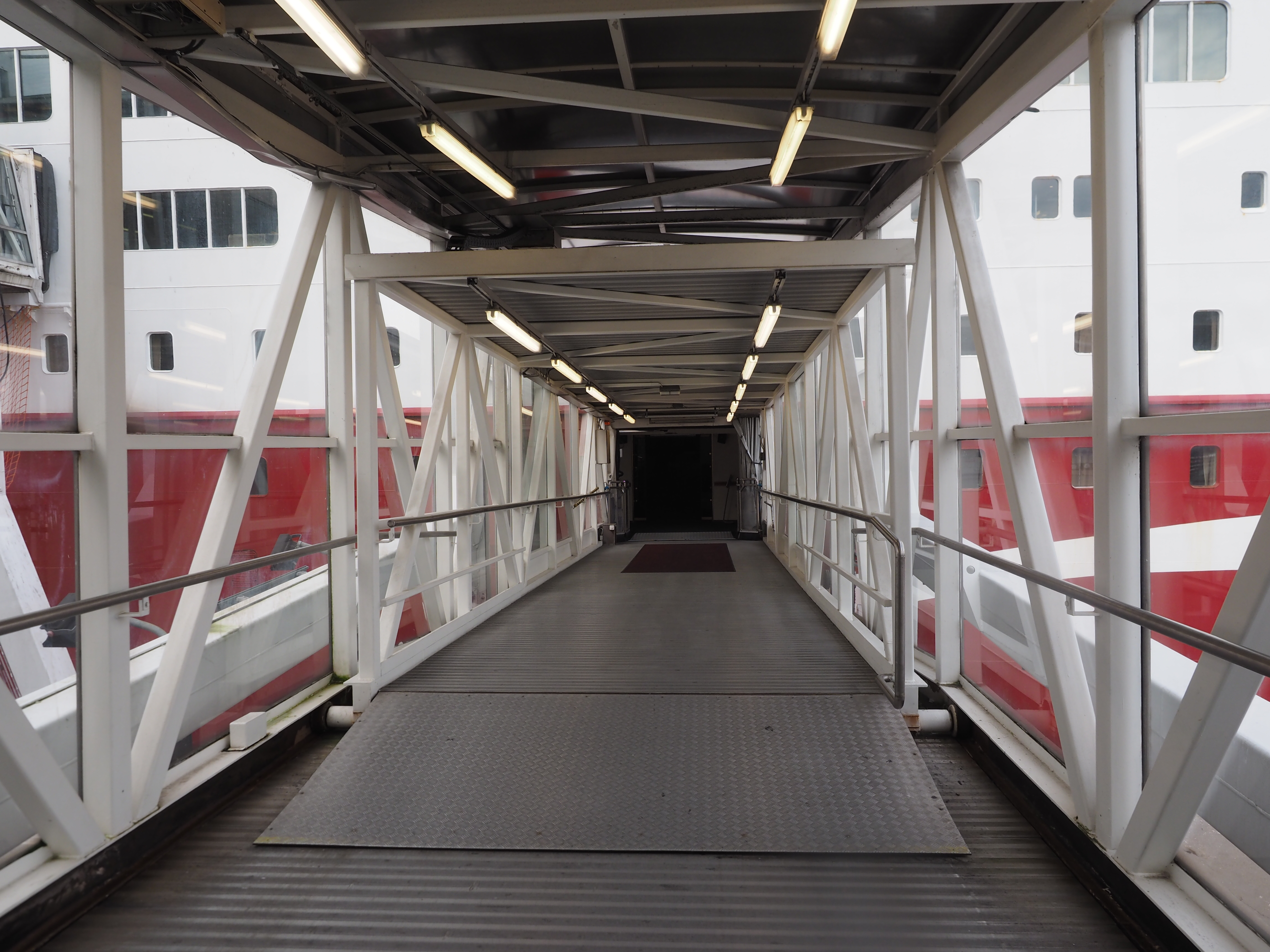 The entrance tunnel to Viking Mariella at Viking Line -terminalen in Masthamnen, Stockholm, Sweden, facing towards the ship.